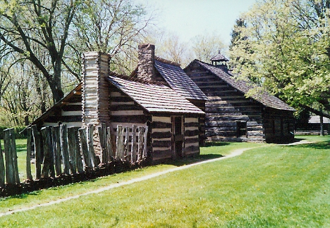 Restored cottages of Lenape (Delaware Indians) in New Philadelphia, Ohio, USA